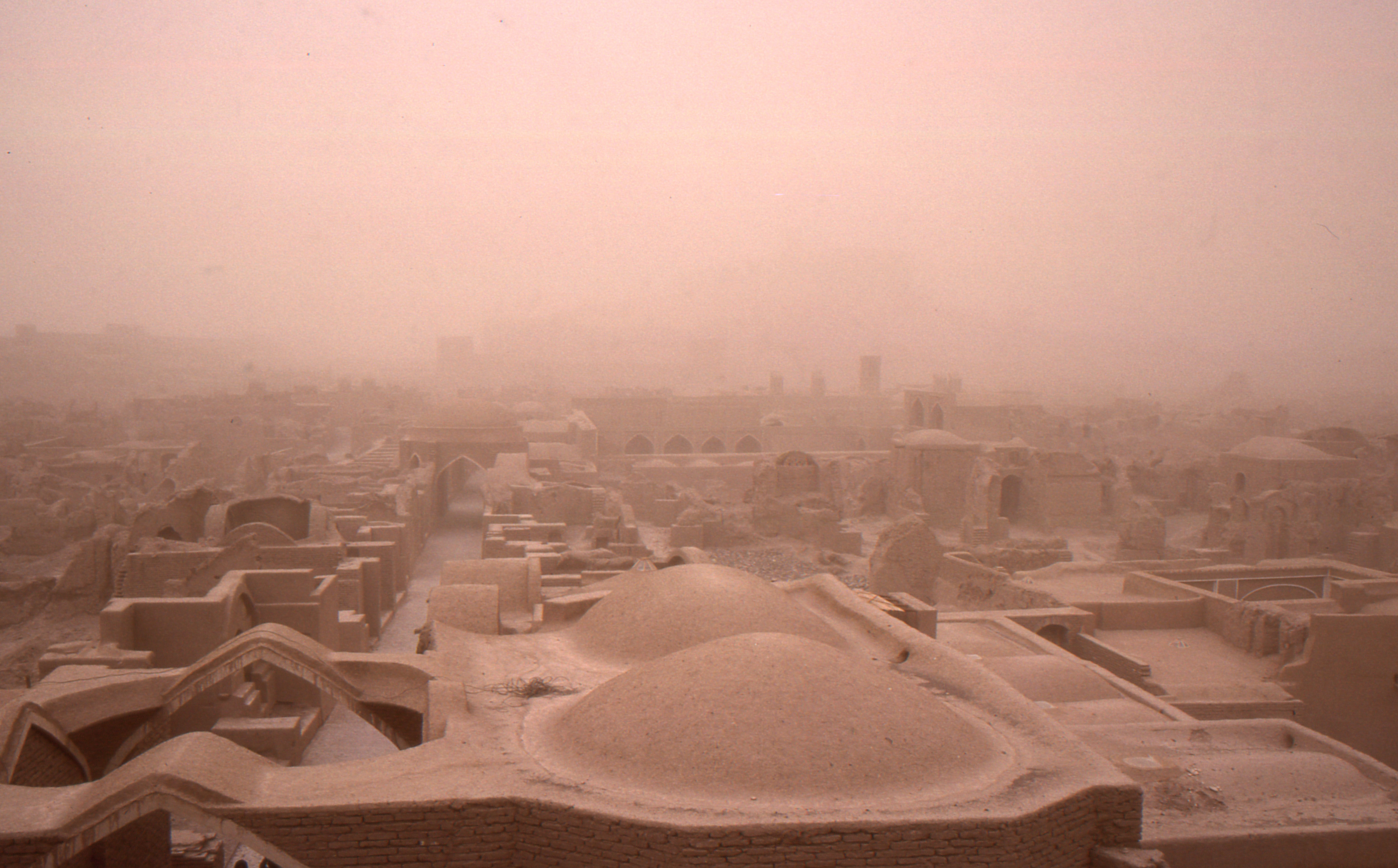 Bam, during a sandstorm